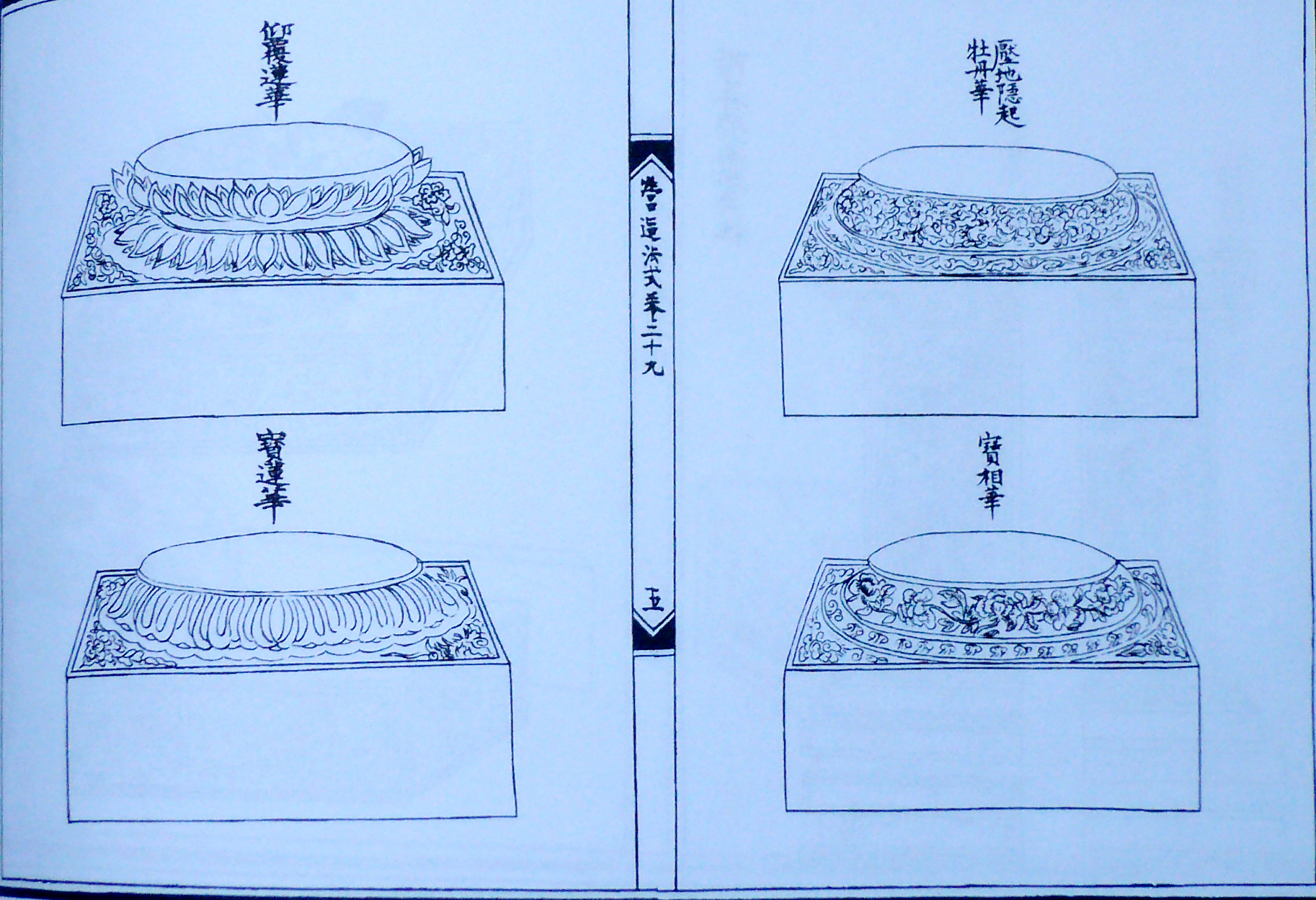 Decoration of base of column in Yingzao Fashi